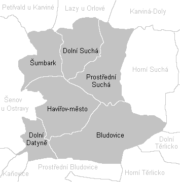 Cadastral map of Havířov